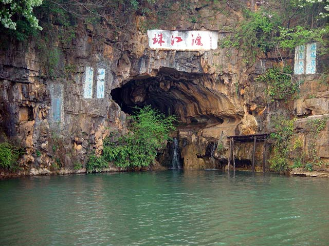 珠江源风景区